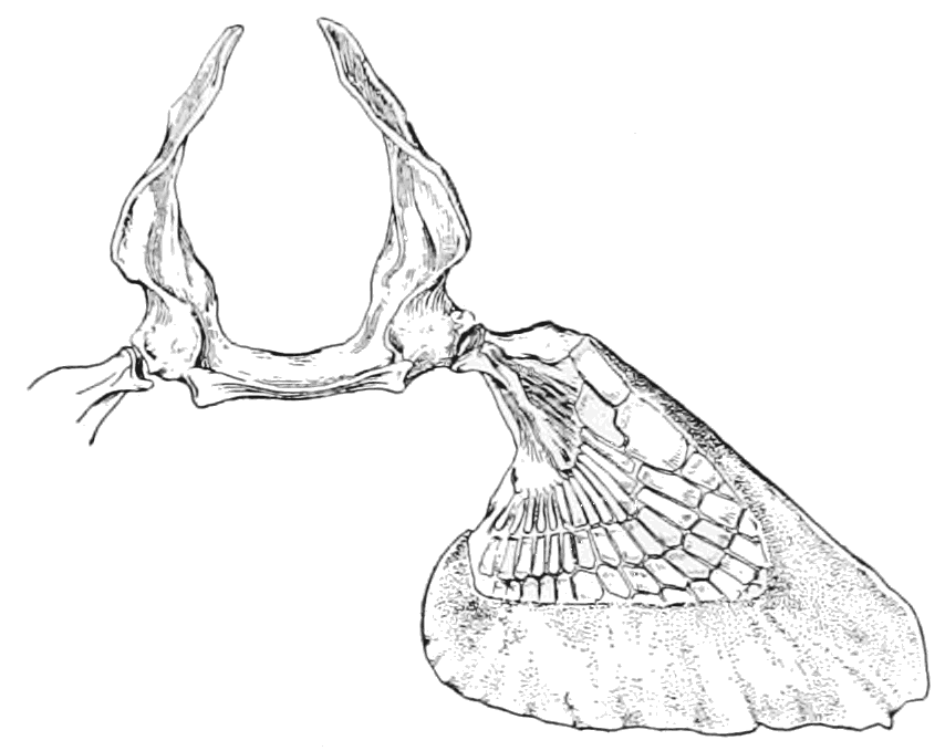 Pectoral fin of Hepterodontus philippi (=H. portusjacksoni)